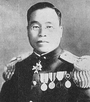 Rokuichiro Oono(The 37th Superintendent General of the Tokyo Metropolitan Police Department)